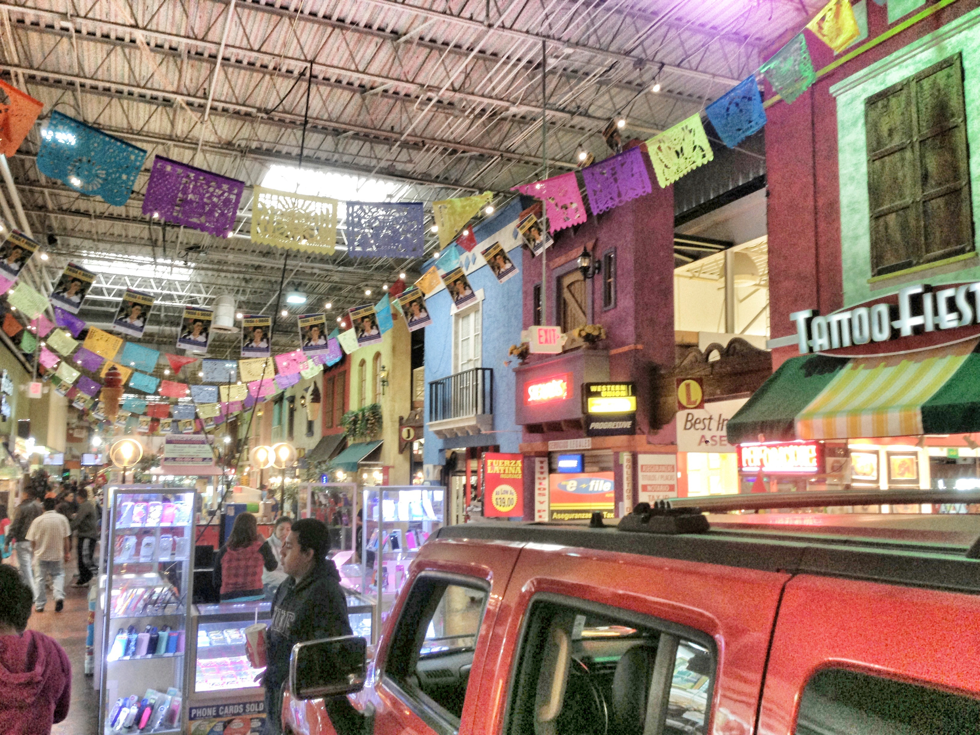 Plaza Fiesta, DeKalb County, Metro Atlanta, Georgia, May 2013